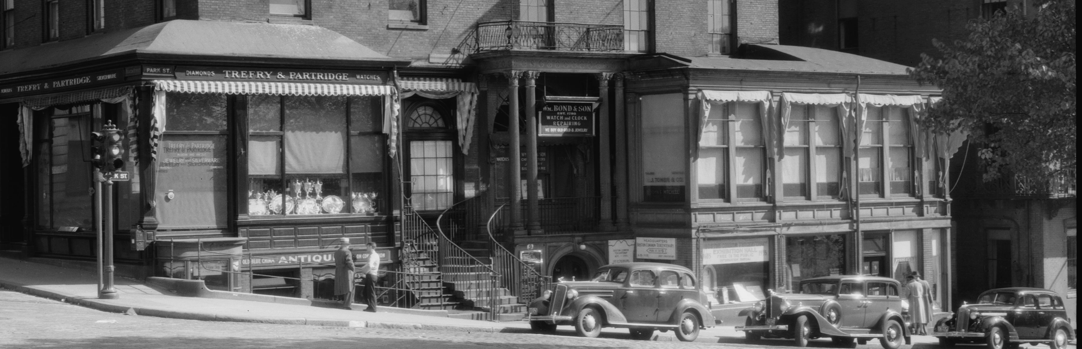 Detail of photo. Amory-Ticknor House, 9 Park Street, Boston, Suffolk County, MA